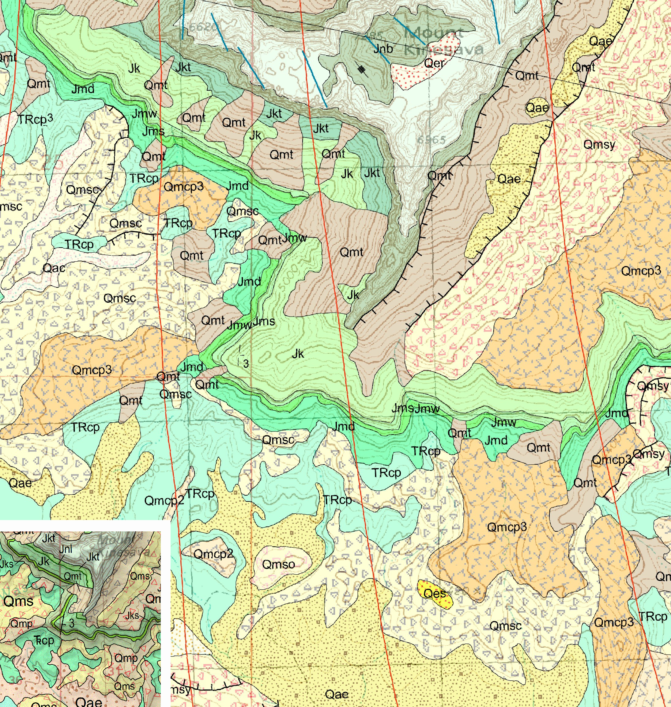 Geologic map of the south slope of Mt. Kinesava in Zion National Park, 1:24,000 scale, inset with a map of the exact same area, 1:100,000 scale, showing differences in detail. Both maps published by Utah Geological Survey, public domain. Created to illustrate Cartographic generalization.